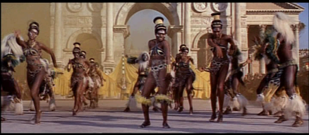 Screenshot from the trailer for the film Cleopatra.